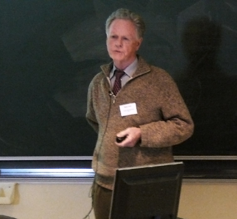 Prof Dempster in the workshop of Belif Function, Brest (FR)